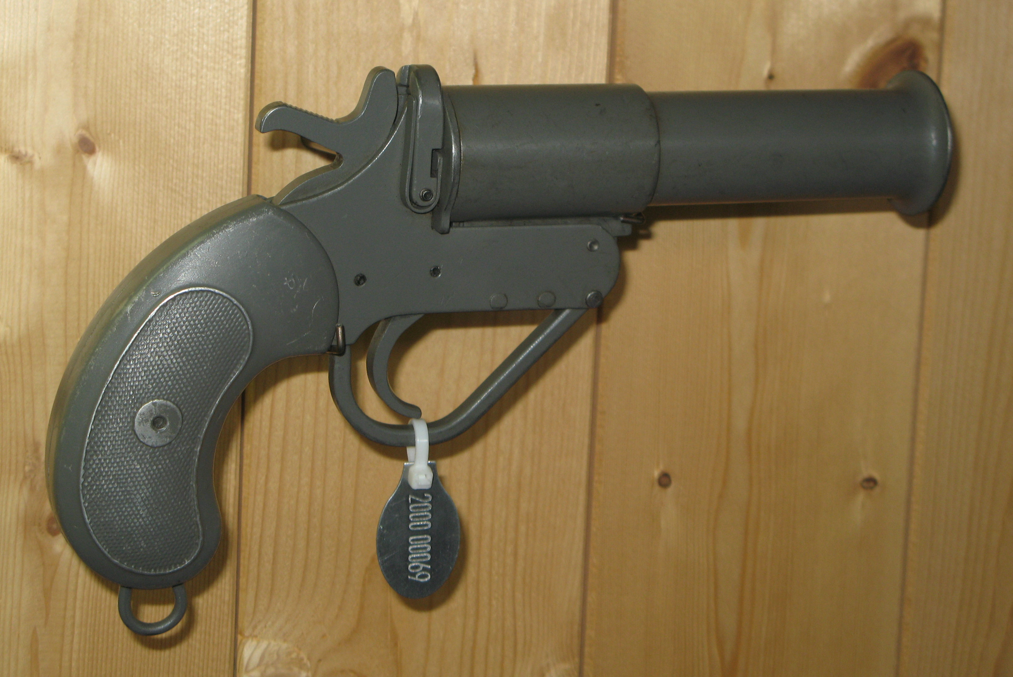 Flare launcher